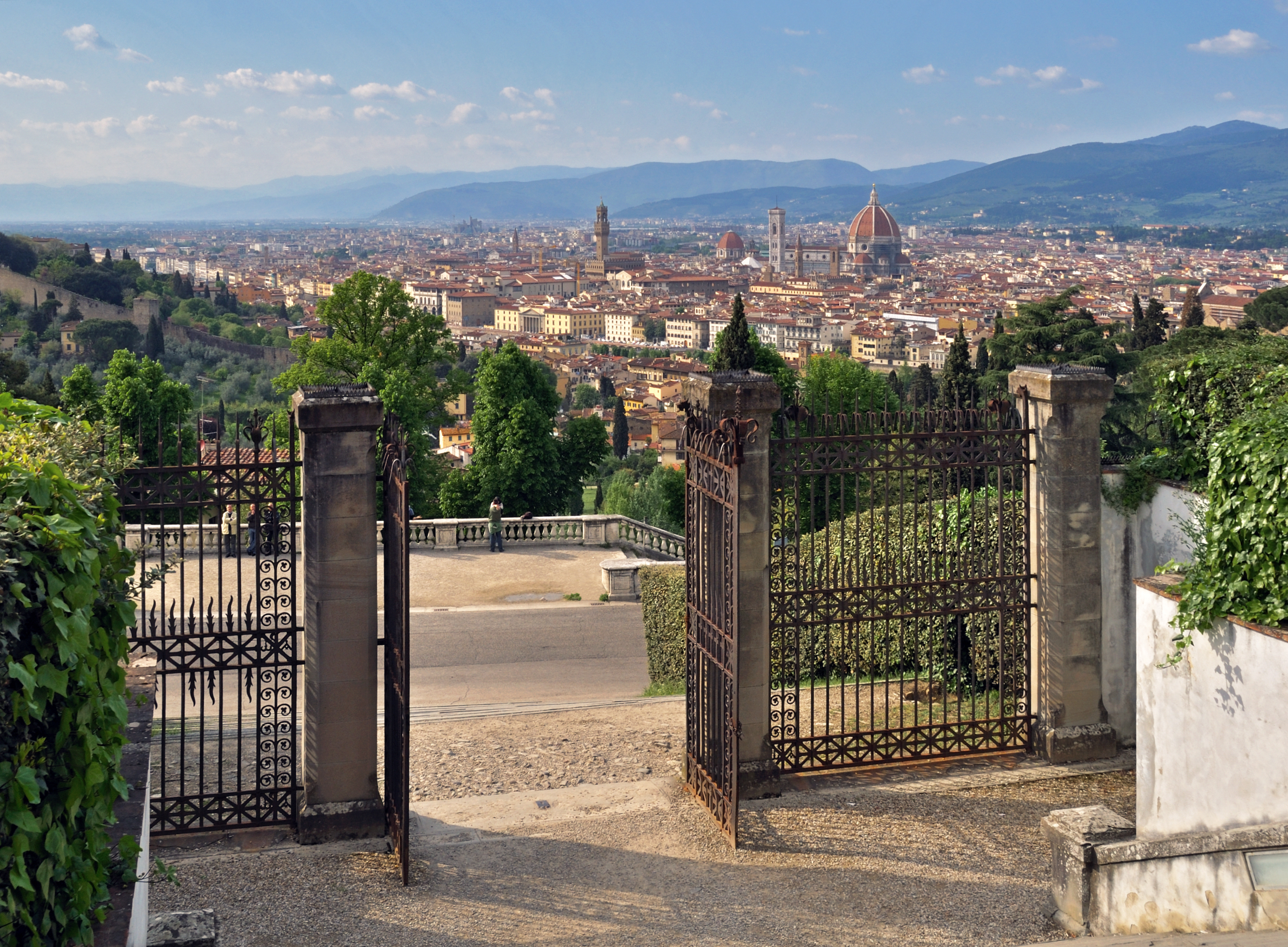 View of Florence from the Abbazia di San Miniato al Monte. Italy